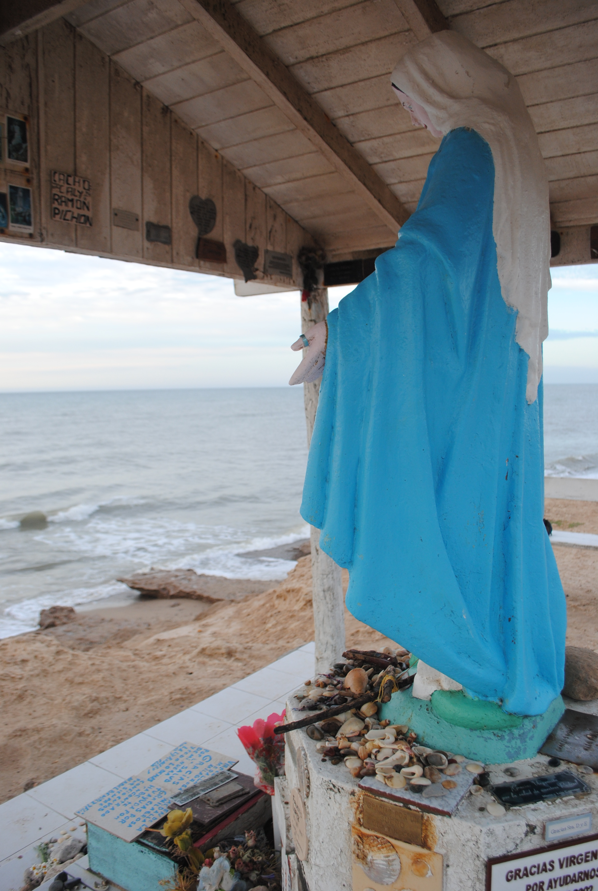 Virgin Mary´s Hermit at Mar del Sur, Buenos Aires province, Argentina